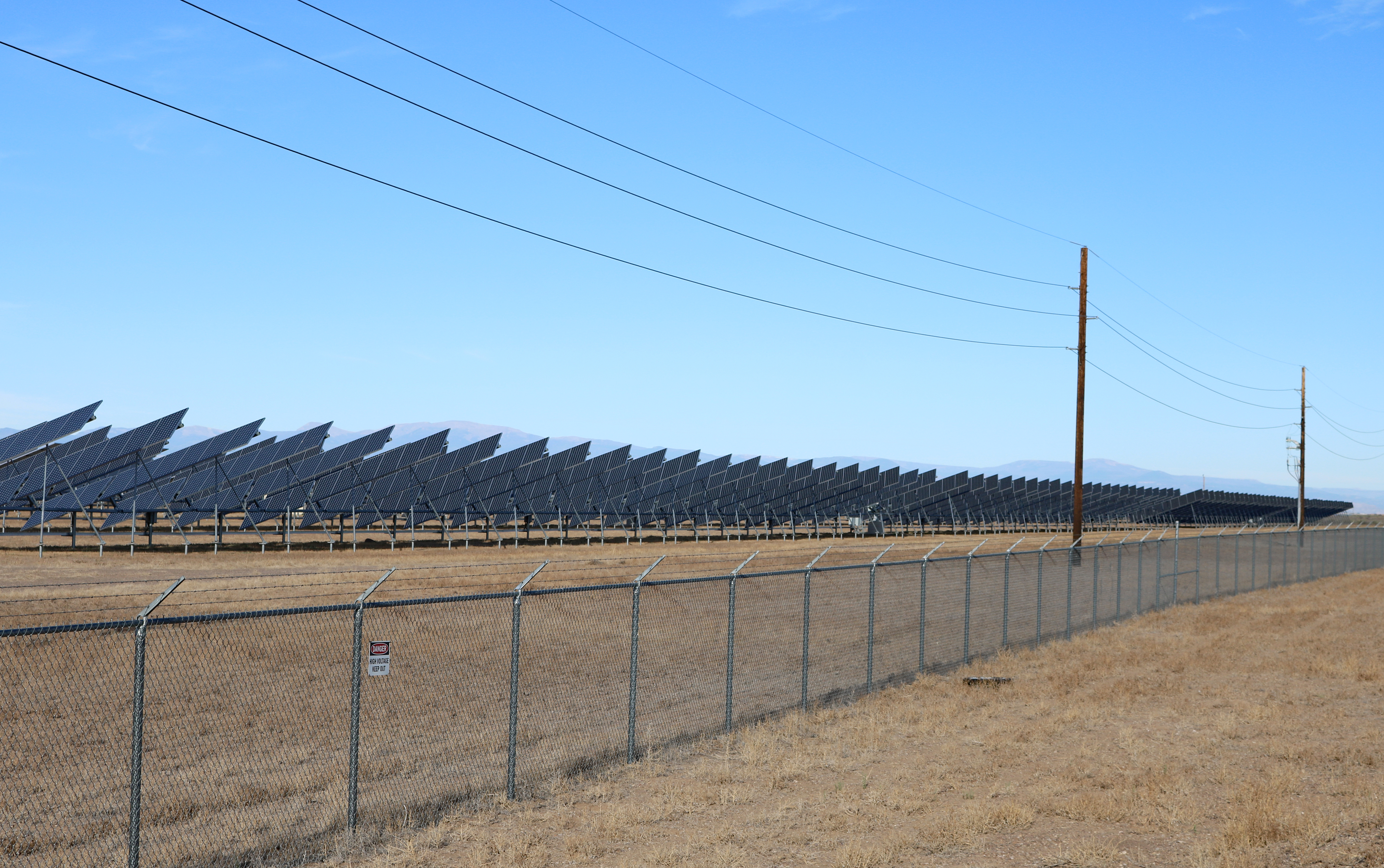 The Greater Sandhill Solar Plant, located on the south side of Lane 8 North, north of Mosca, Colorado.